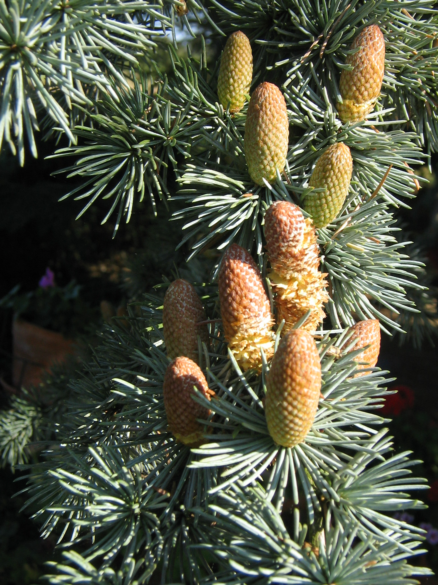 Cedrus libani var. atlantica (Atlas Cedar) 'Glauca' - flowering male cones